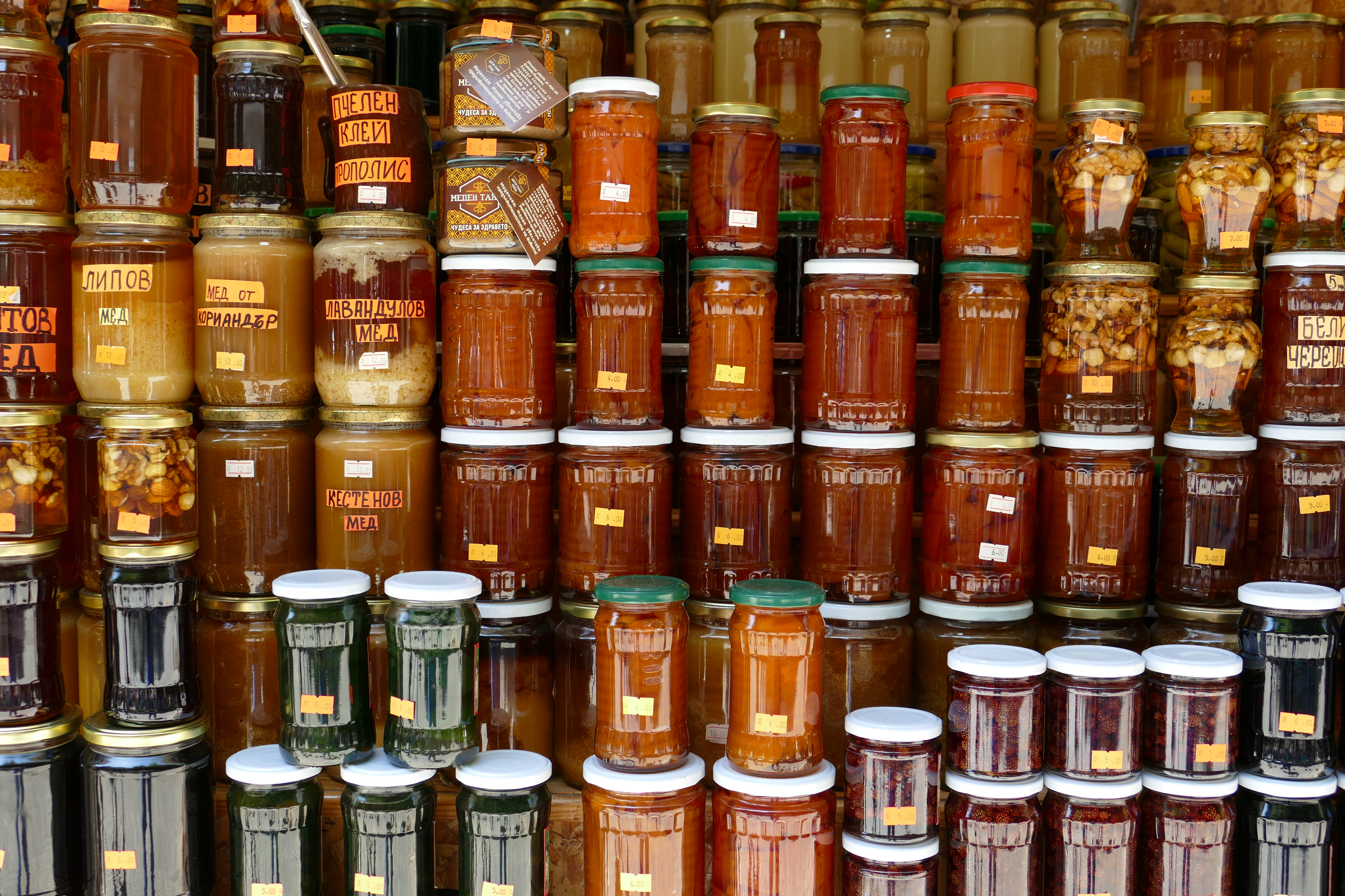 Honey and preserves sold on the side of the footpath from the parking lot to Bachkovo Monastery